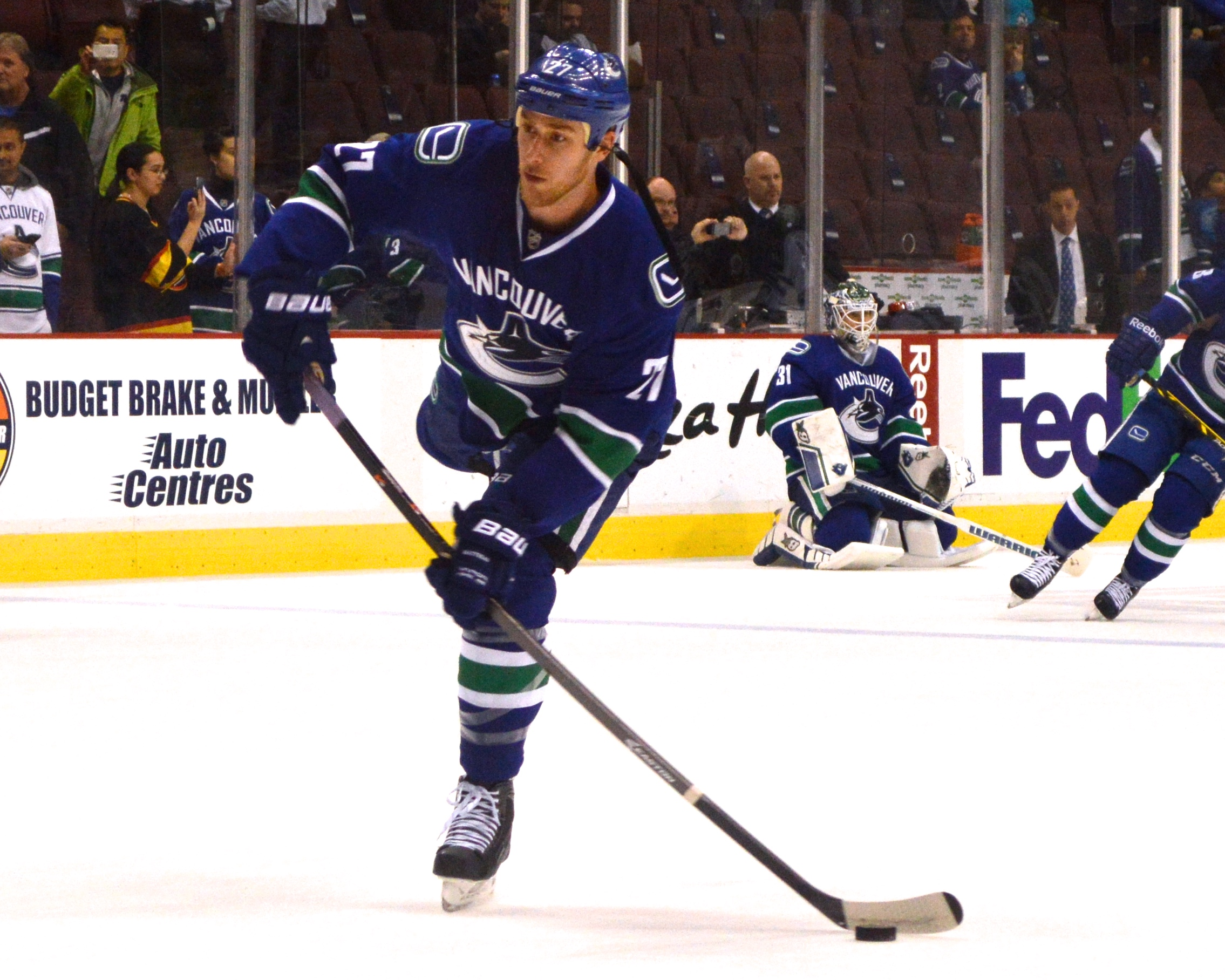 Shawn Matthias